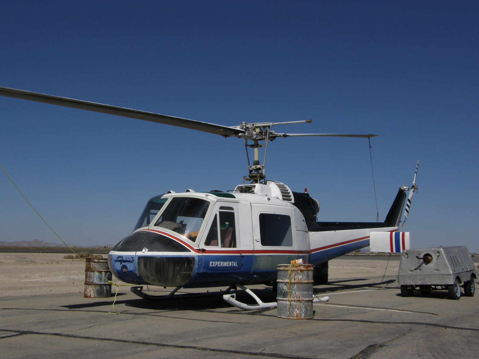 Antelope Valley College Bell 204 at Fox Field, Lancaster California